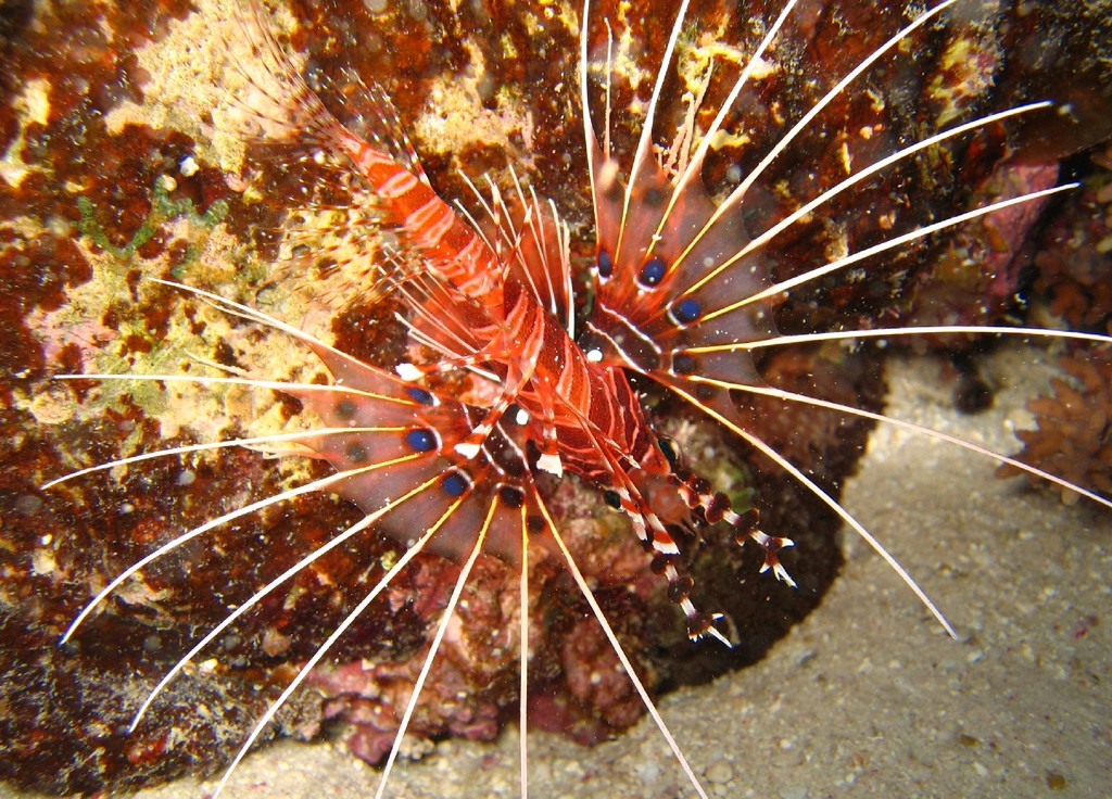 Spotfin Lionfish (Pterois antennata). Tracey's Wonderland, Ribbon Reefs, Great Barrier Reef